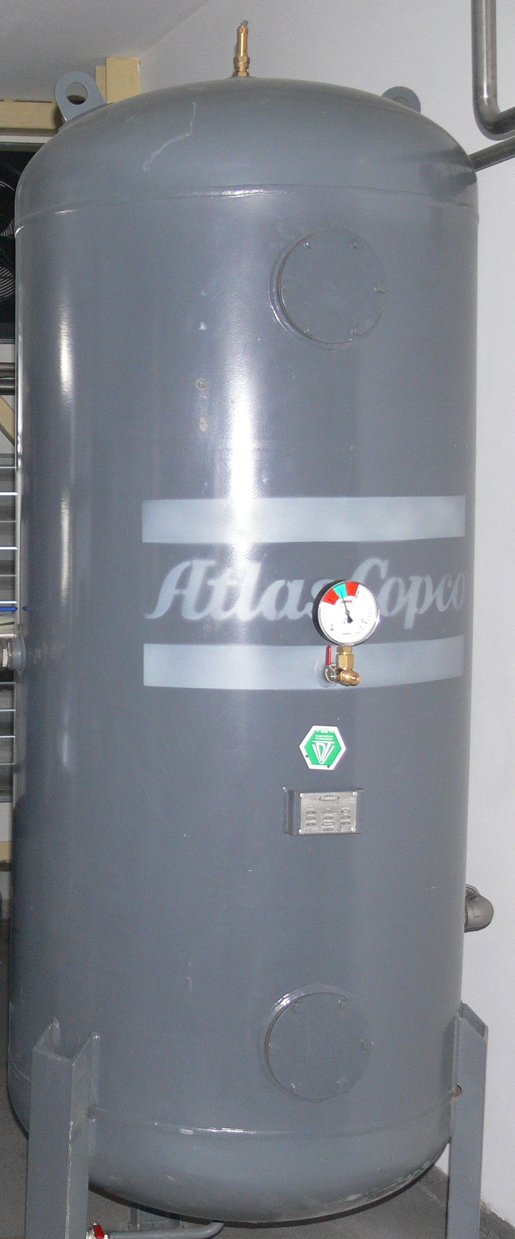 Air receiver